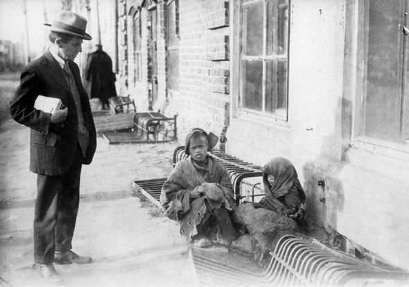 Original caption: "Vernon Kellogg encounters two refugees on a Moscow street, September 1921. Photo from the Hoover Institution Archives."